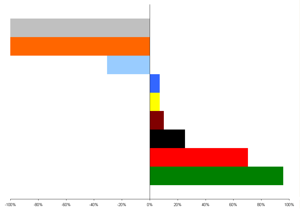 Heinemann 2007 Support for hypothetical EU tax by European Parliament group.PNG. Heinemann 2007 Support for hypothetical EU tax by European Parliament group An April 2008 discussion paper from the Centre for European Economic Research by Heinemann et al. analysed each Group's 2007 stance on a hypothetical generalised EU tax. Those figures were: G/EFA: 95% for (3.8 on a scale of -4 to 4) PES: 70% for (2.81 on a scale of -4 to 4) ITS: 25% for (1 on a scale of -4 to 4) EUL-NGL: 10% for (0.4 on a scale of -4 to 4) ALDE: 7% for (0.28 on a scale of -4 to 4) EPP-ED: 7% for (0.28 on a scale of -4 to 4) UEN: 31% against (-1.22 on a scale of -4 to 4) IND/DEM: 100% against (-4 on a scale of -4 to 4) NI: 100% against (-4 on a scale of -4 to 4) Coloration In order to allow the chart to be used on all wikis, the chart has no annotations in English. The colours follow the convention established on English Wikipedia and are coloured to the following schema: Conservative/Christian Democrat (CD,EPP (79-92),EPP (92-99),FE,EPP-ED) Conservatives only (C,ED,MER) Social Democrats (S,SOC,PES) Communist/Far-Left (COM,LU,EUL,EUL/NGL) Liberal/Centrist (L,LD,LDR,ERA,ELDR,ALDE) National Conservatives (UDE,EPD,EDA,UFE,UEN) Greens only (G) Green/Regionalist (RBW (84-89),RBW (89-94),G/EFA) Heterogeneous (CDI,TGI) Independents (NI) Eurosceptics (EN,I-EN,EDD,IND/DEM) Far-Right Nationalist (ER,DR,ITS) For details on English Wikipedia conventions and the groups, see Political groups of the European Parliament.